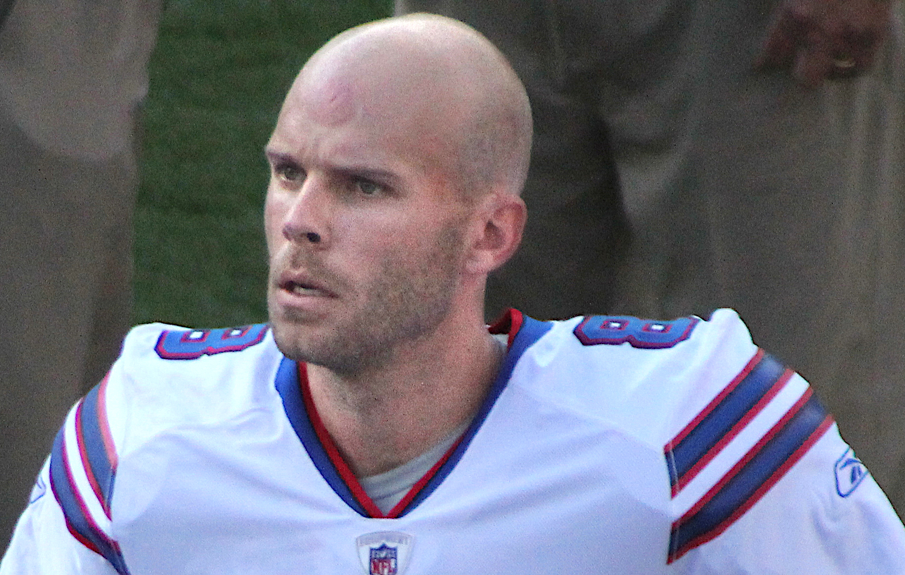 Brian Moorman, a National League Football player.